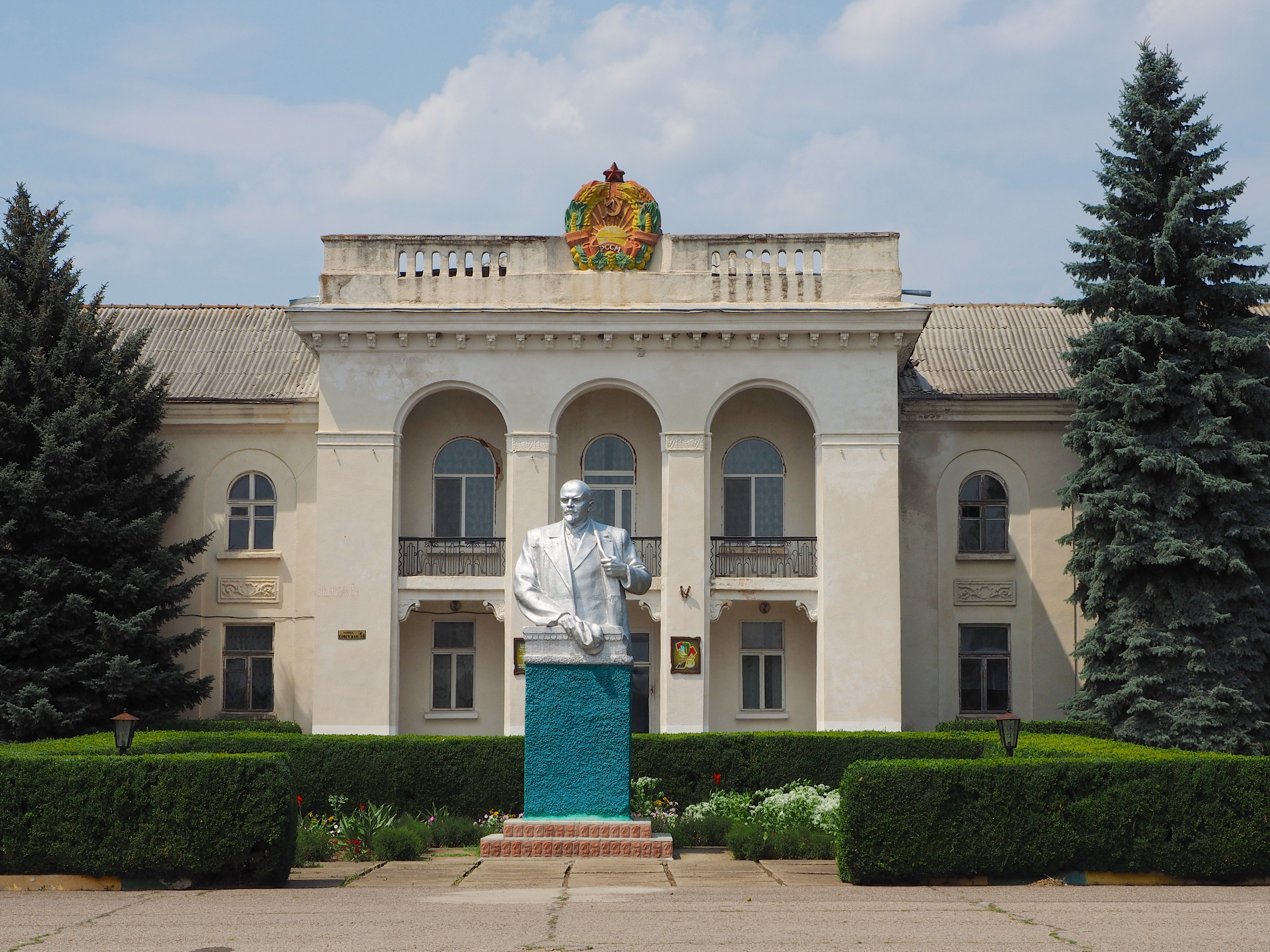 Dubăsari and its suburbs were the site of major conflict during 1990-1992, that eventually degenerated into the War of Transnistria (1992). Since then, it has been controlled by the breakaway administration of Transnistria. Transnistria (also called Trans-Dniestr or Transdniestria) is a breakaway state located mostly on a strip of land between the River Dniester and the eastern Moldovan border with Ukraine. Since its declaration of independence in 1990, and especially after the War of Transnistria in 1992, it is governed as the Pridnestrovian Moldavian Republic (PMR, also known as Pridnestrovie) a state with limited recognition that claims territory to the east of the River Dniester, and also to the city of Bender and its surrounding localities located on the west bank, in the historical region of Bessarabia. The terms "Transnistria" and "Pridnestrovie" both reference the Dniester River. Pridnestrovie retains a strong pride in it's Russian and Soviet heritages.